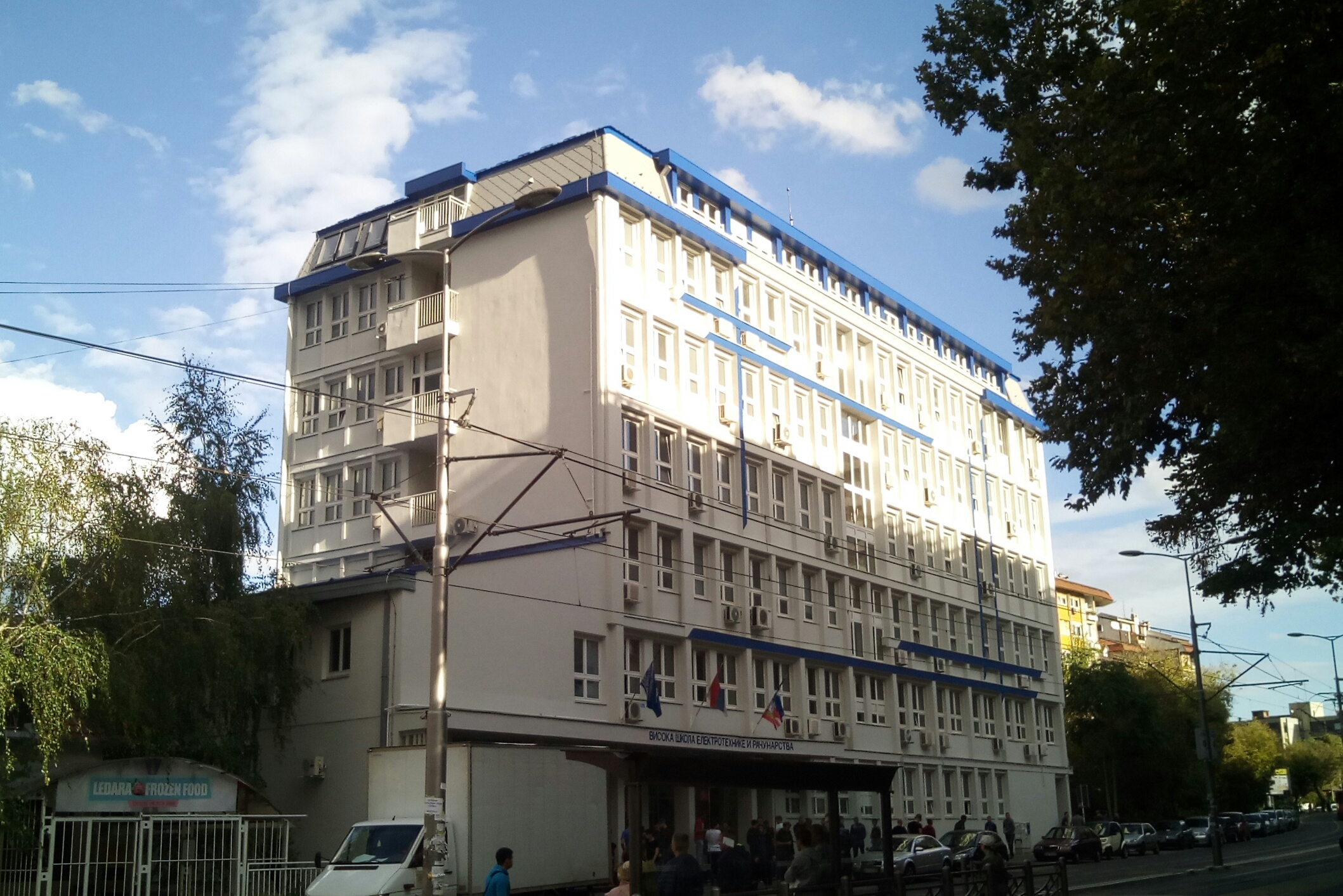 The School of Electrical and Computer Engineering of Applied Studies - Belgrade / October 2016 Српски (ћирилица): Висока школа електротехнике и рачунарства струковних студија - Београд / Октобар 2016.